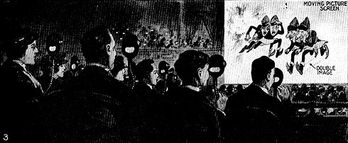 Source: From a 1922 periodical about the Teleview system.